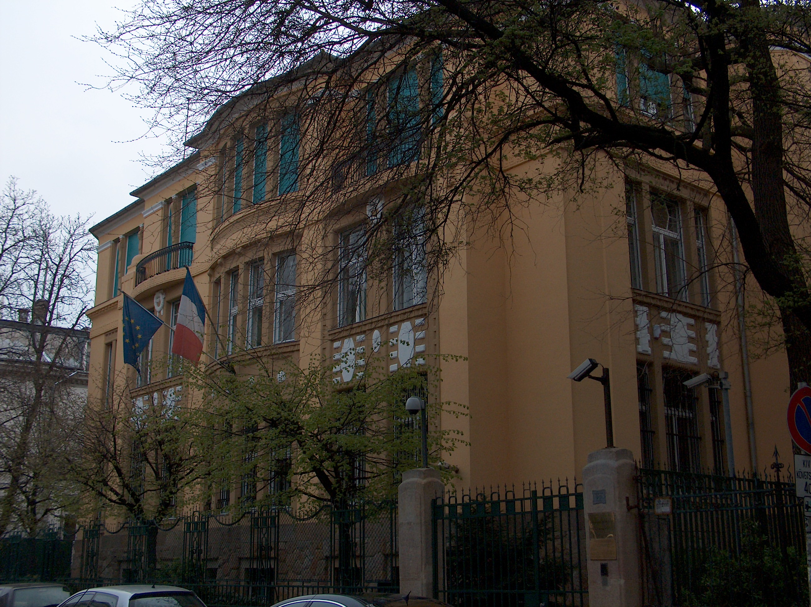 Embassy of France - Budapest